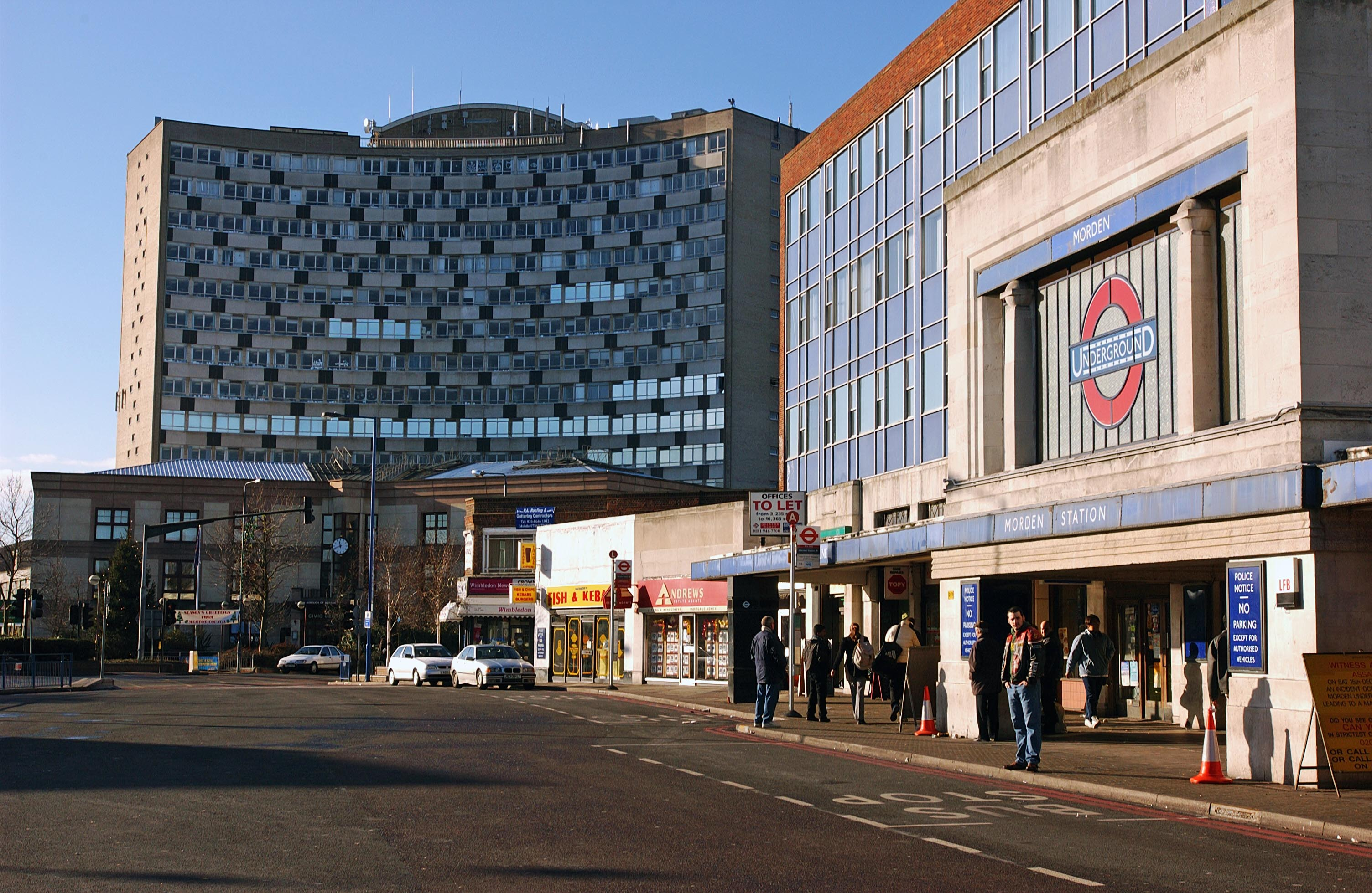 Morden Underground station and Crown House, Morden, LondonAuthor: Ian Howard